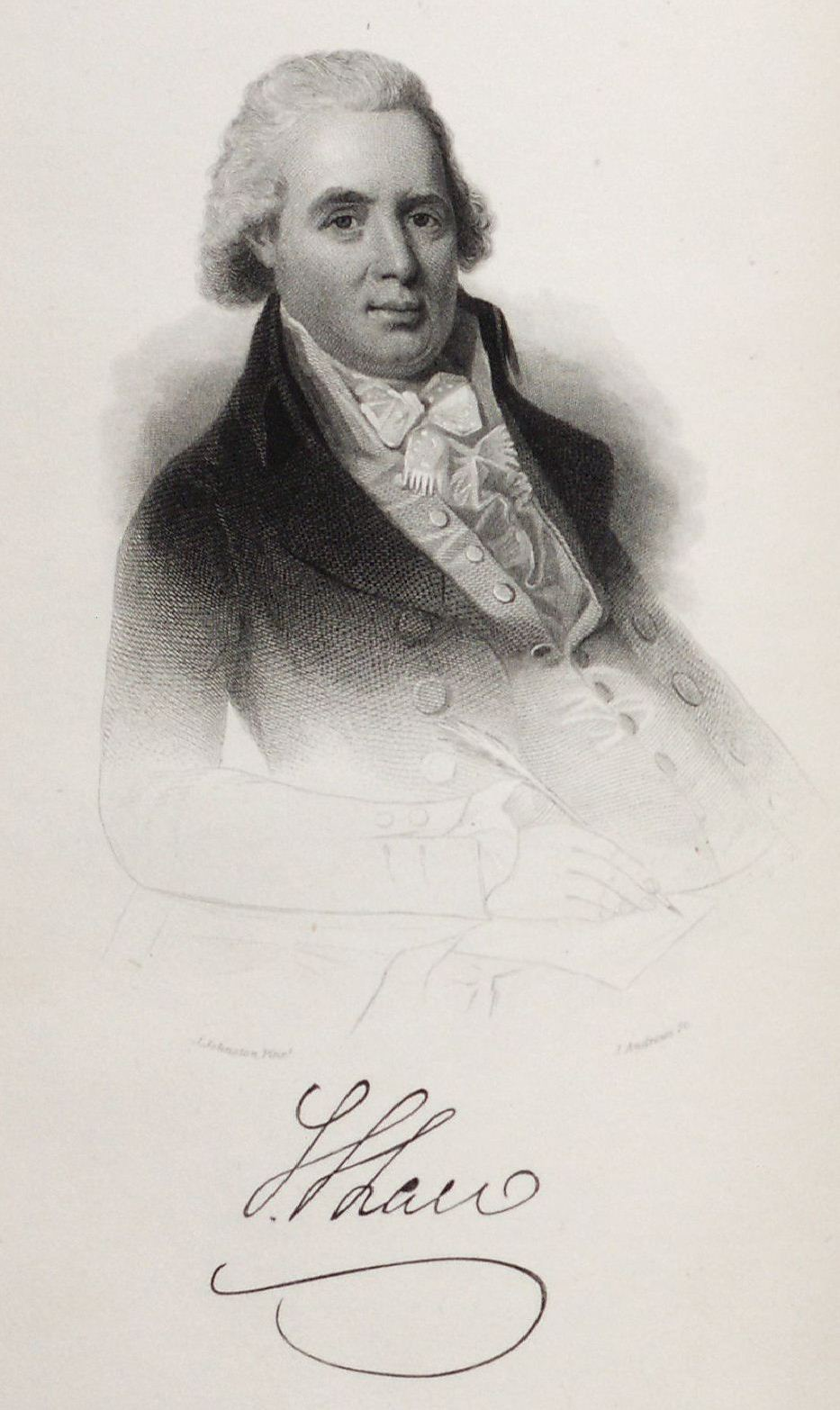 Portrait of Samuel Shaw with his signature, from The journals of Major Samuel Shaw, the first American consul at Canton, Samuel Shaw, Josiah Quincy, Boston : Wm. Crosby and H. P. Nichols, 1847.